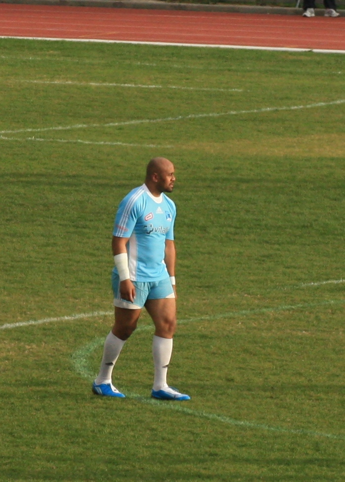 Jonah Lomu is a New Zealand rugby union player. He is playing with french club Marseille Vitrolles the 22 november 2009.